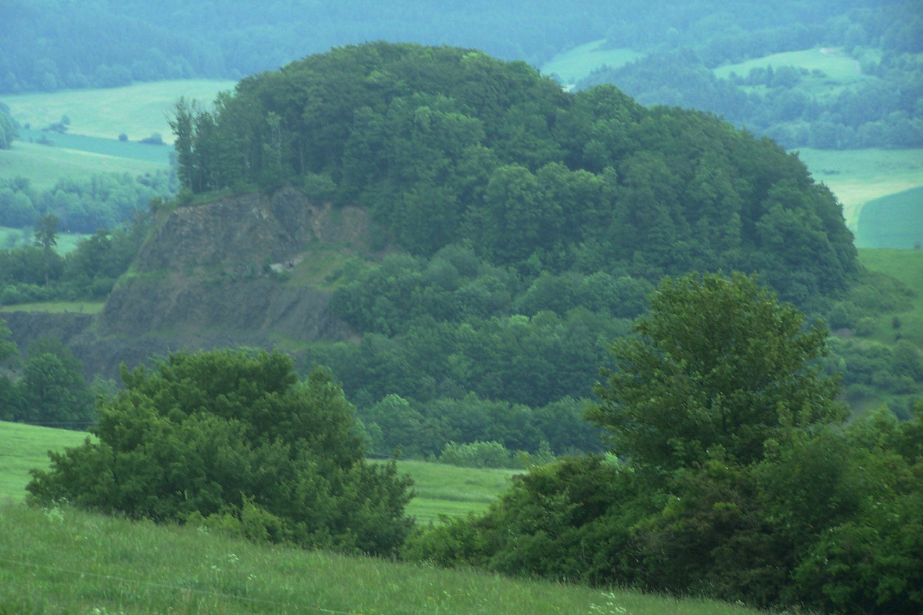 The Höhn, a hill and stone quarry near Klings. It's the place of Fischberg castle.